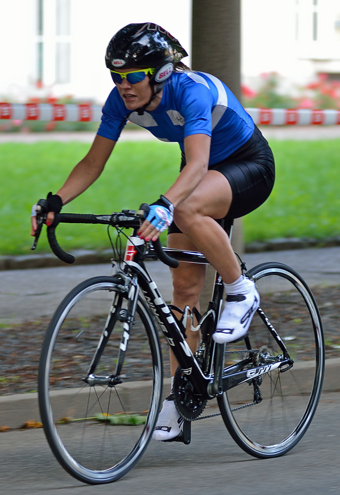 Sari Saarelainen from the National Team Finnland during the Women's Tour of Thuringia 2012 in Zwickau, Germany.